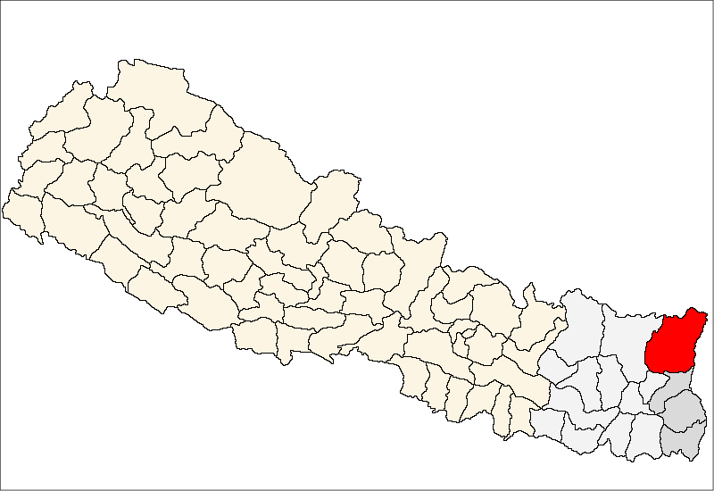 FrenchCarte de localisation dudistrict de Taplejung(wp-FR),au Népal (wp-FR).EnglishLocation map ofTaplejung District(wp-EN),in Nepal (wp-EN).